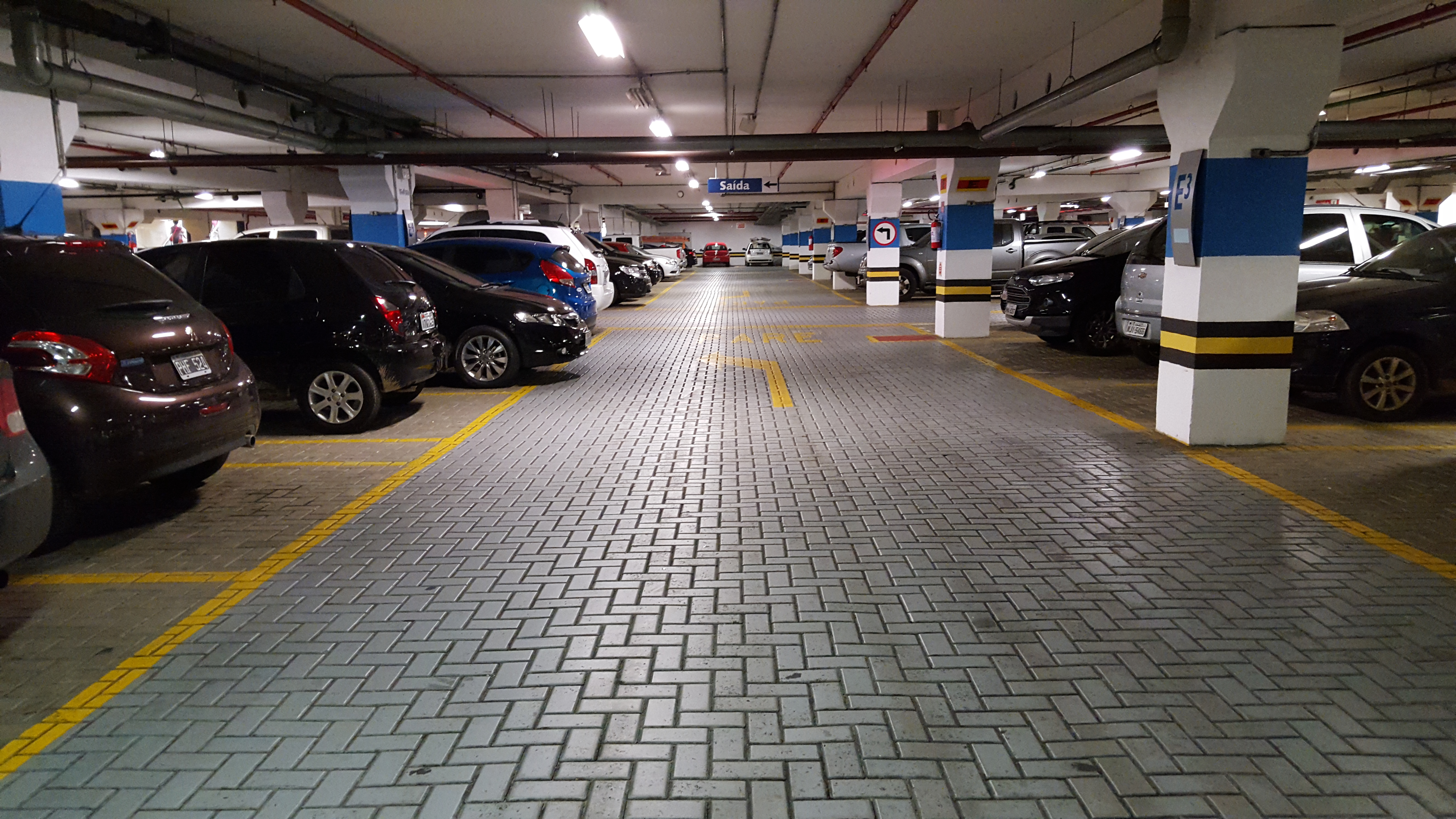 Subterranean parking lot of Floripa Shopping.